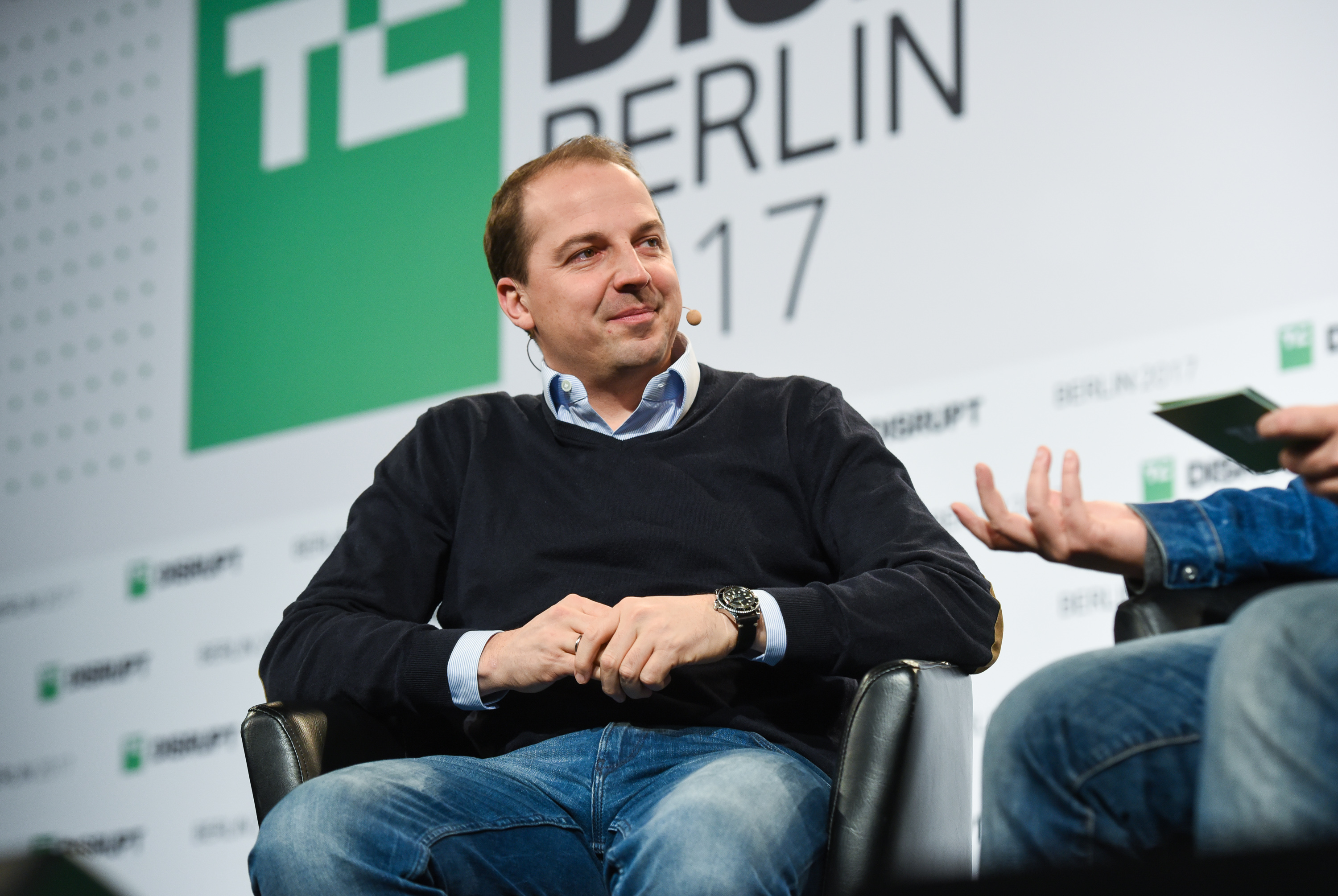 BERLIN, GERMANY - DECEMBER 04: Onefootball CEO & Founder Lucas von Cranach at TechCrunch Disrupt Berlin 2017 at Arena Berlin on December 4, 2017 in Berlin, Germany. (Photo by Noam Galai/Getty Images for TechCrunch). (Photo by Noam Galai/Getty Images for TechCrunch)